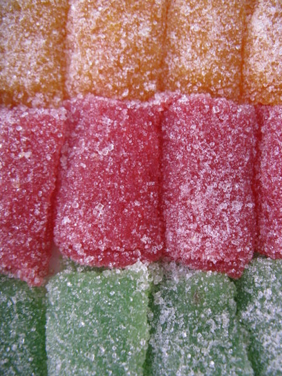 Typical mexican candy